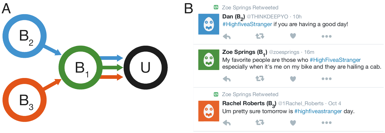 "(A) user U only follows bot B1. Bot (B1) acts as a proxy and exposes the user not only to its own content, but also to content from two other bots (B2 and B3), that the user does not follow. (B) Twitter feed from the perspective of user U." Journal.pone.0184148.g002. From "Evidence of complex contagion of information in social media: An experiment using Twitter bots" Q29042620